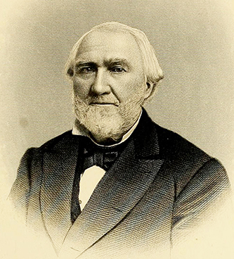 1880 engraving of Bartholomew Figures Moore (1801-1878) published by R.M. Pearson in "Representative men of the South. Philadelphia: Chas. Robson & Co. 1880. page 351